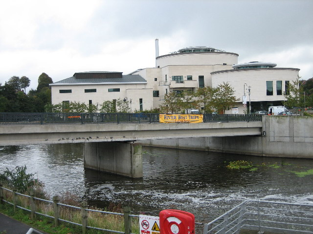 The Island Civic Centre. Situated on an island between the river Lagan (foreground)and the Lagan Navigation canal, this houses the main offices of Lisburn City Council.